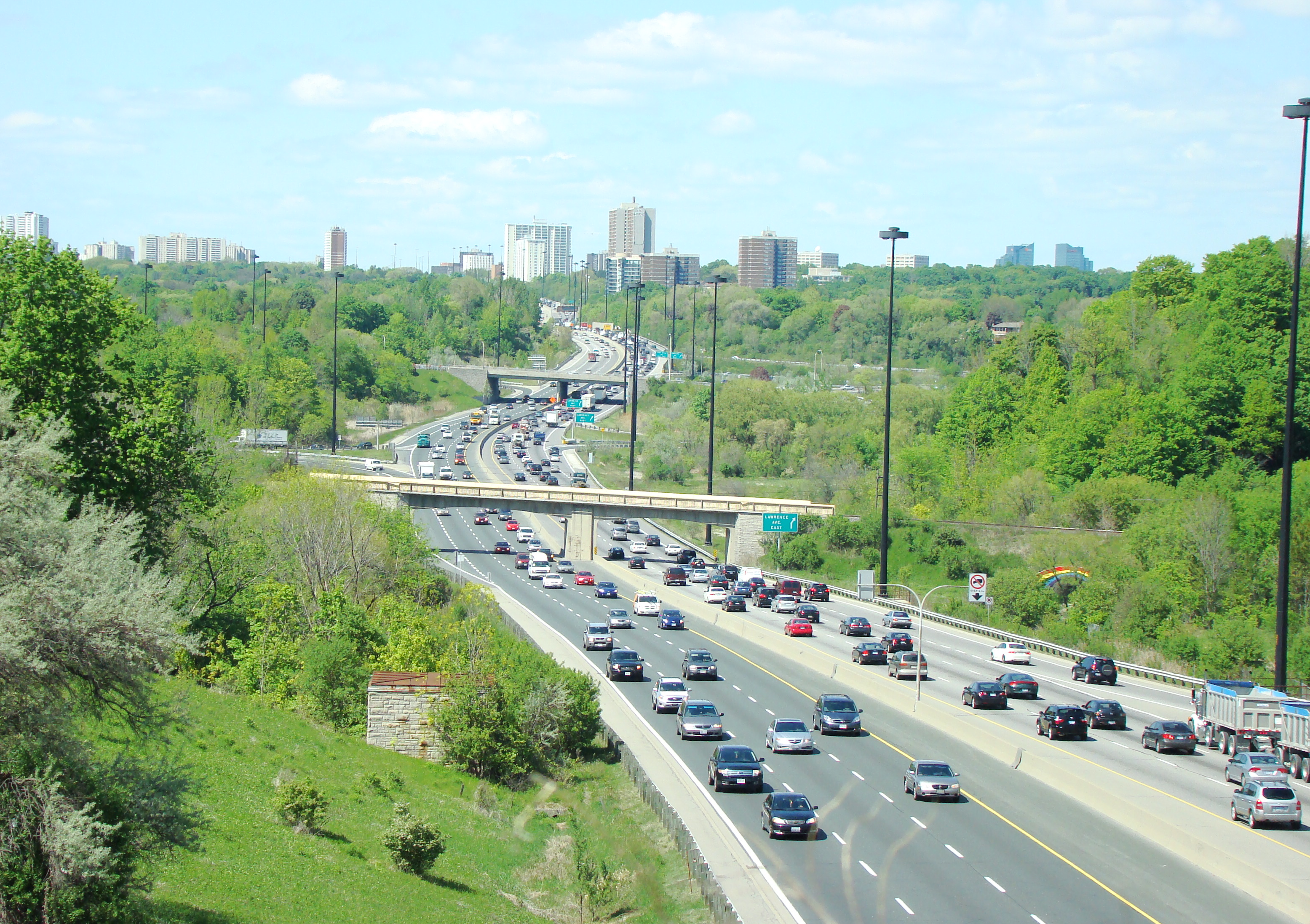 A photo looking north along Toronto's Don Valley Parkway, taken from CN's midtown line rail bridge over the highway. Since it is a day ending in 'y', the highway is congested.